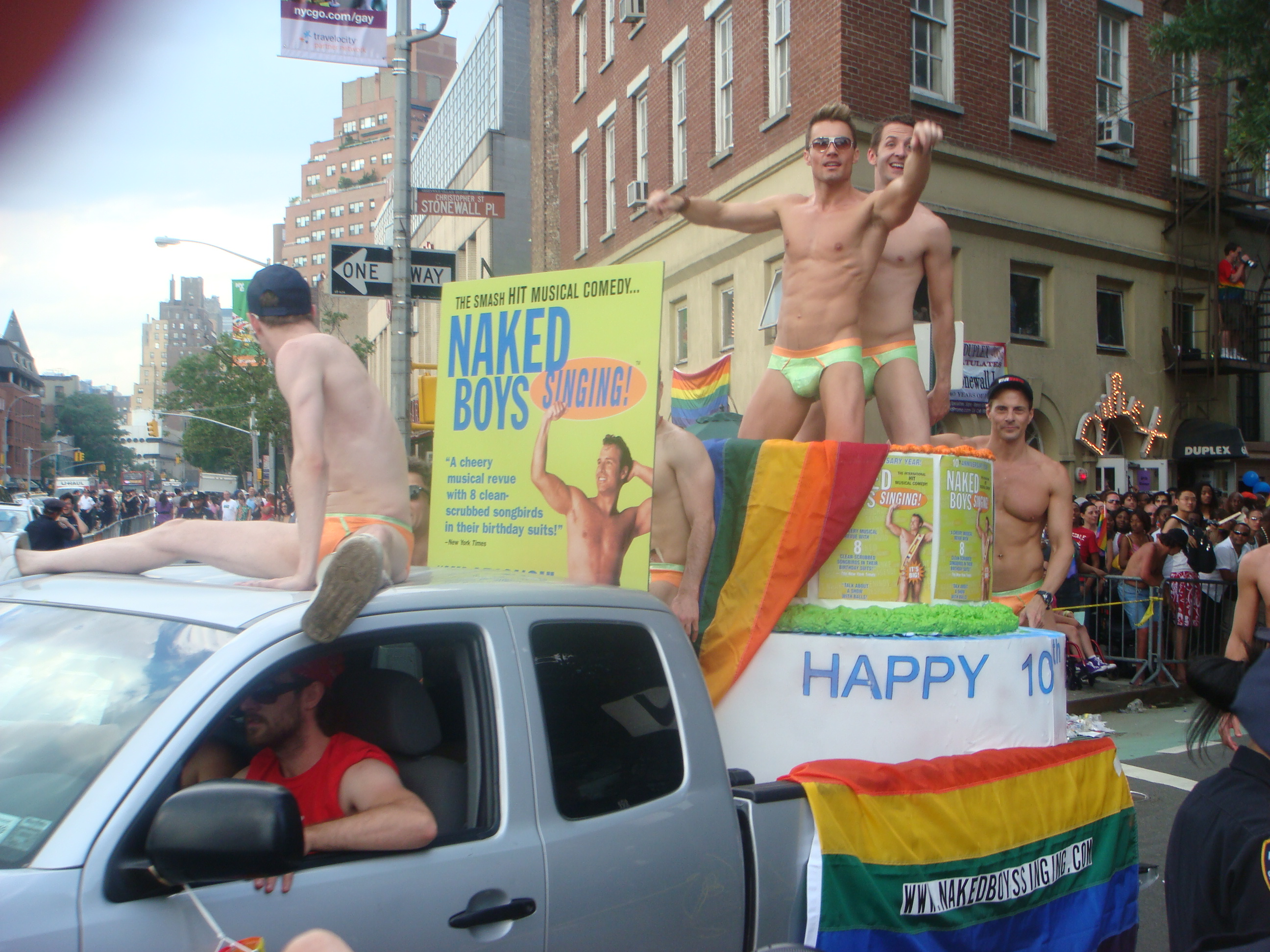 Naked Boys Singing! cast members at NYC Gay Pride Parade, June 28, 2009.